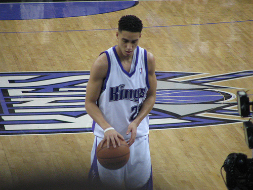 KevinMartin.jpg